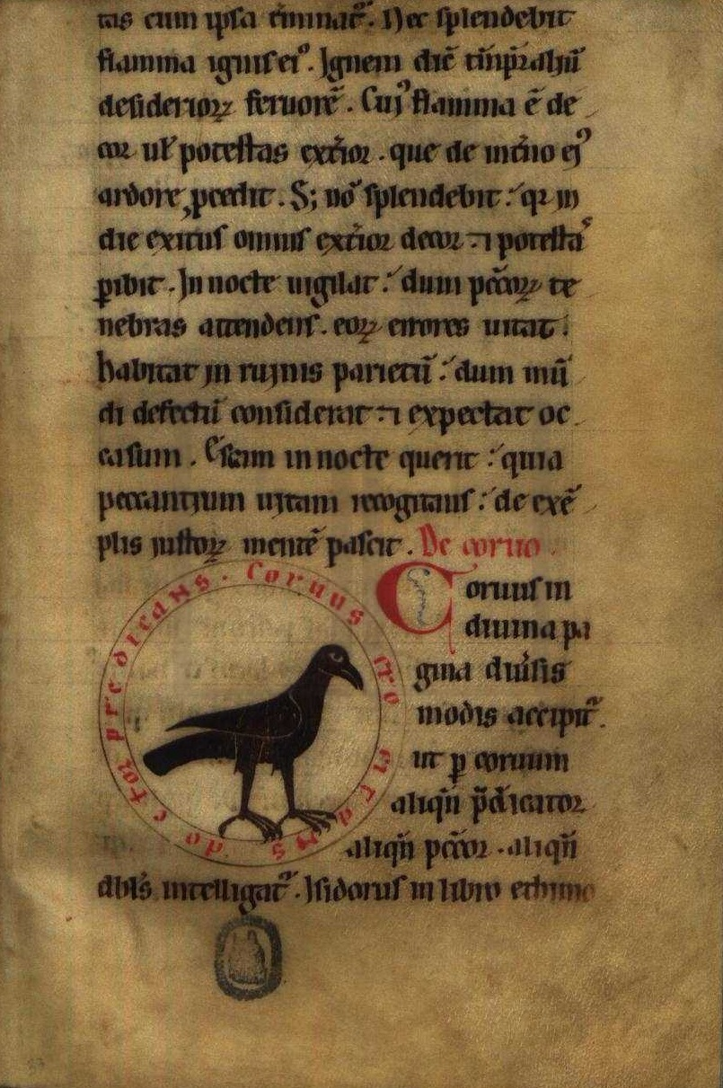 Livro das Aves: the Raven